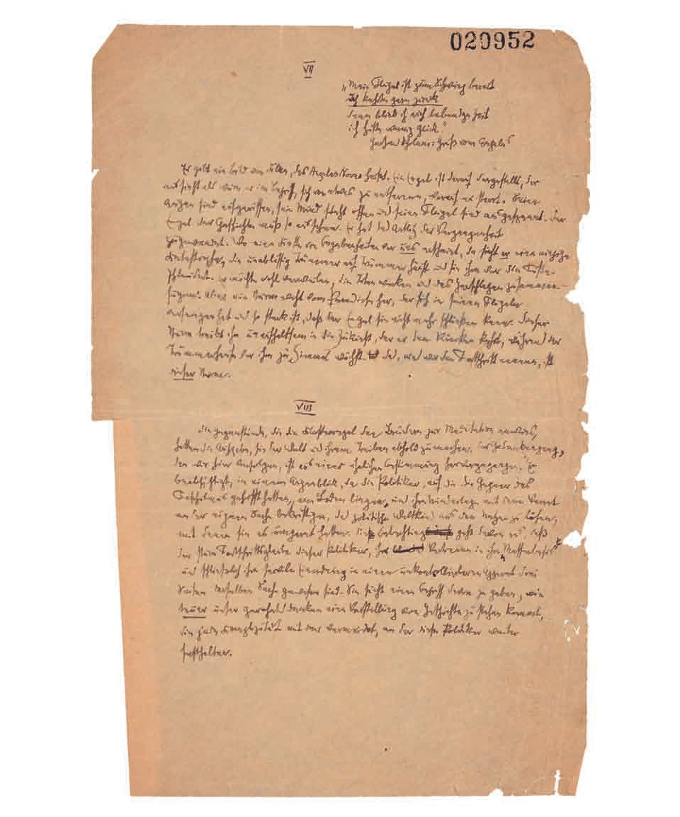 Manuscript "On the Concept of History", so-called "Das Hannah-Arendt-Manuskript"